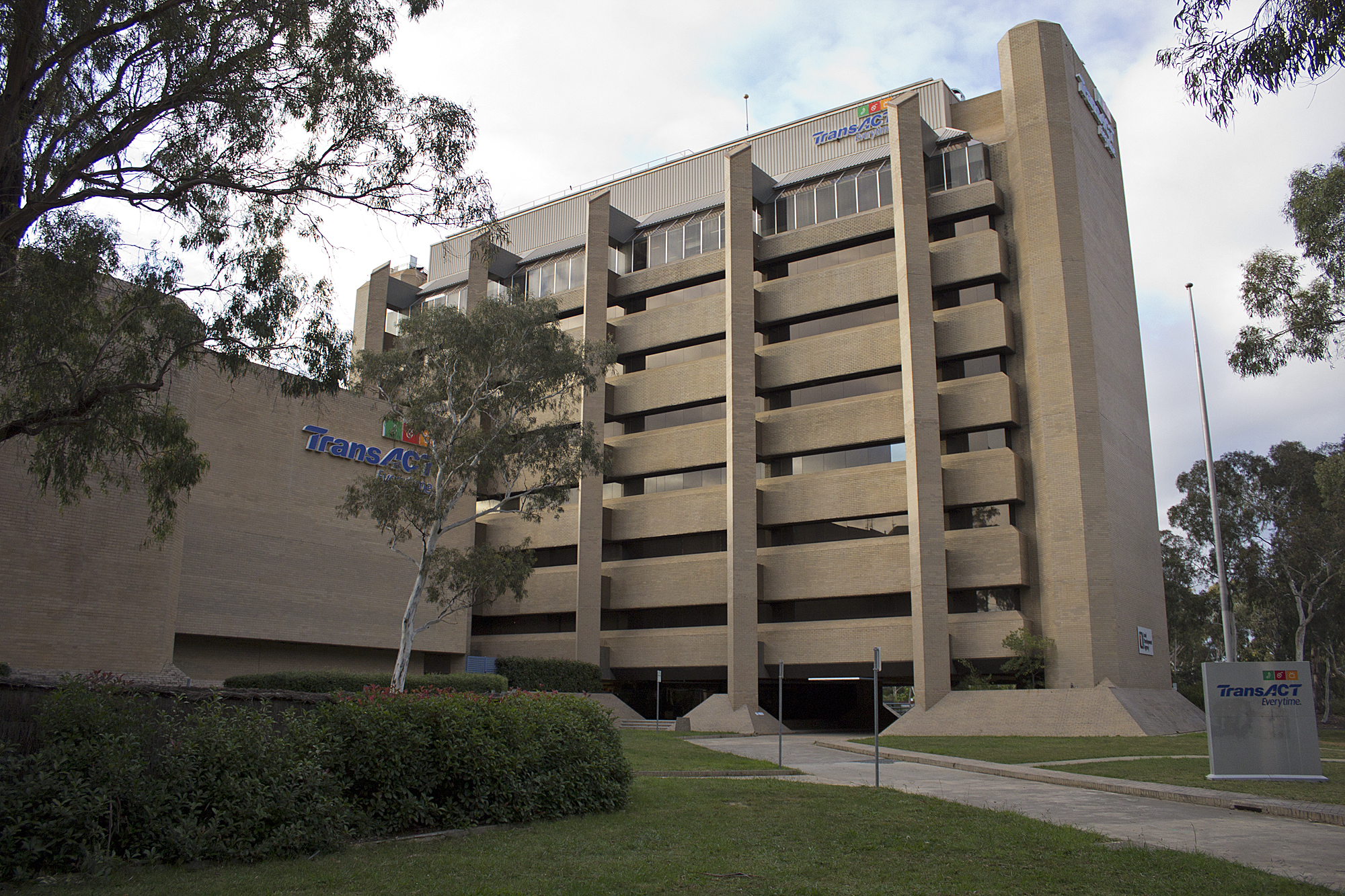 TransACT building in the Canberra suburb of Dickson, Australian Capital Territory.